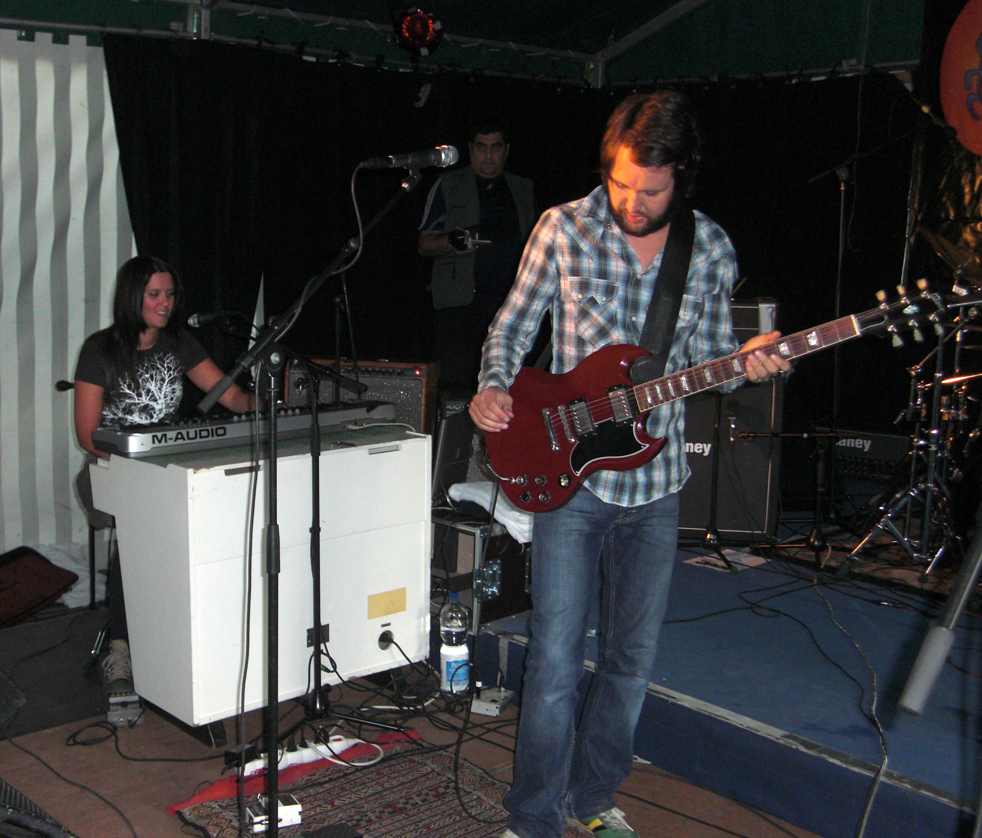 Anekdoten plays at Slottsskogen Goes Progressive 2008 in Gothenburg, Sweden. To the left Anna Sofi Dahlberg playing a M-Audio keyboard on top of a Mellotron M400S. To the right Nicklas Barker playing a Gibson SG guitar.